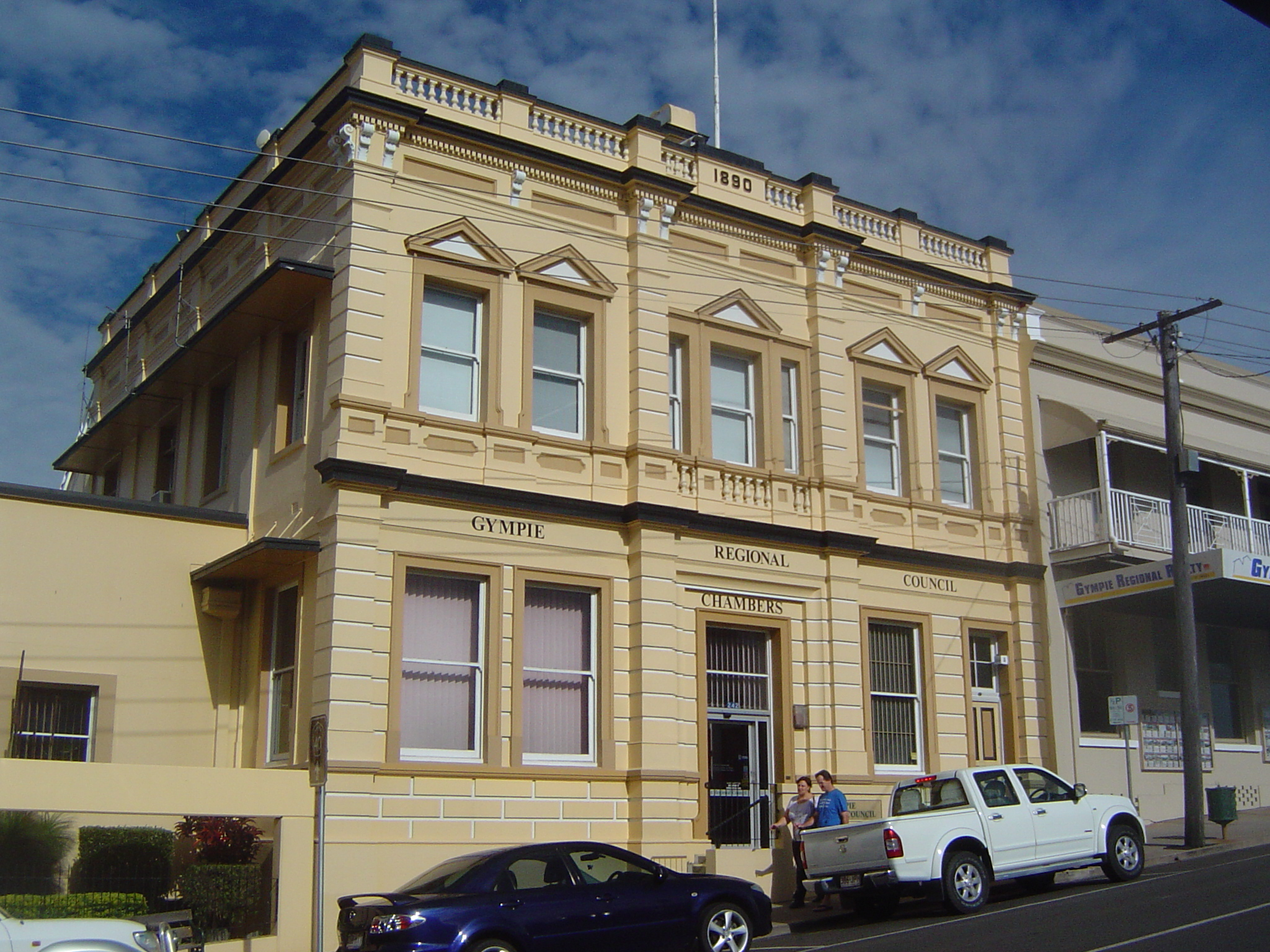 Photo of former Gympie Regional Council Chambers in Mary Street, Gympie, Queensland, Australia. Building was then home to a law firm.